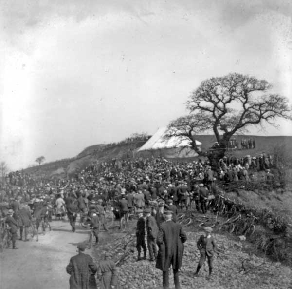 The opening of Barr Beacon to the public. Note all the bicycles!